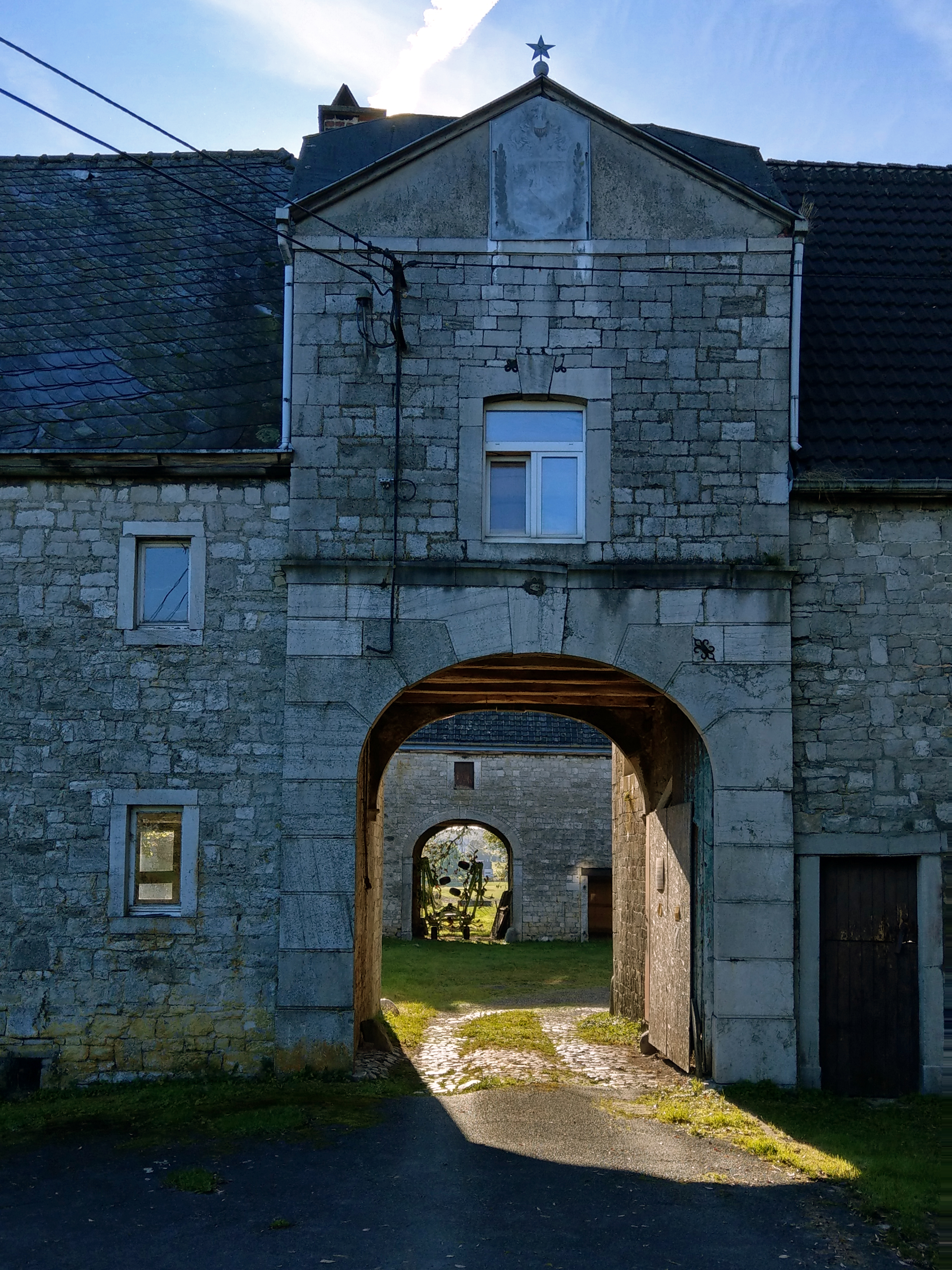 The domain is not publicly accessibleExplanations and history, see category